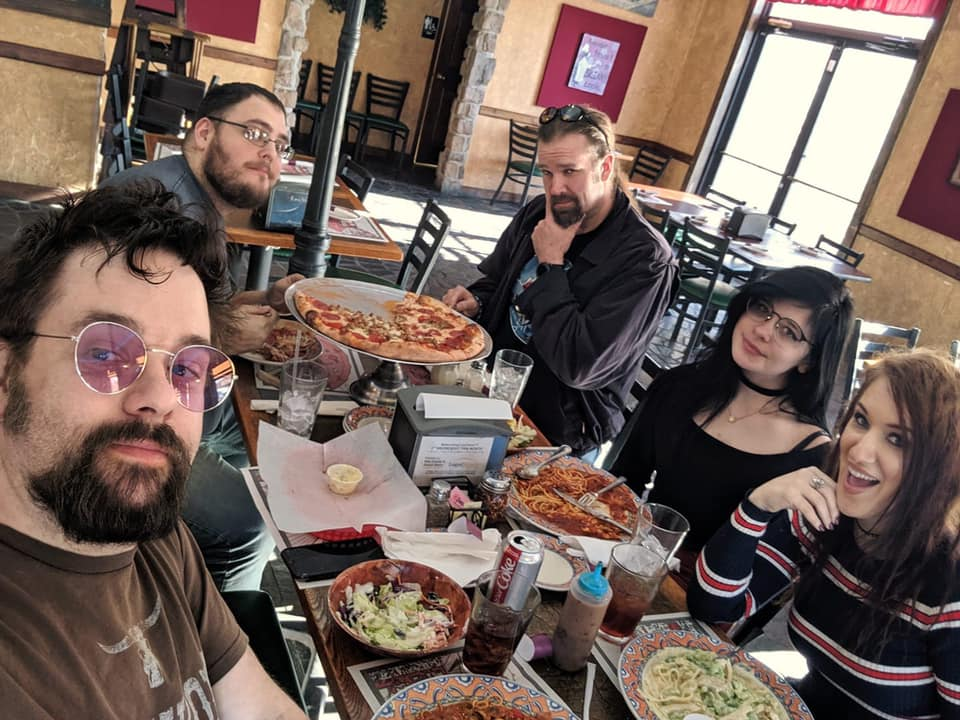 We took this picture at some restaurant in Maryland where our waiter asked us how to spell veal cacciatore